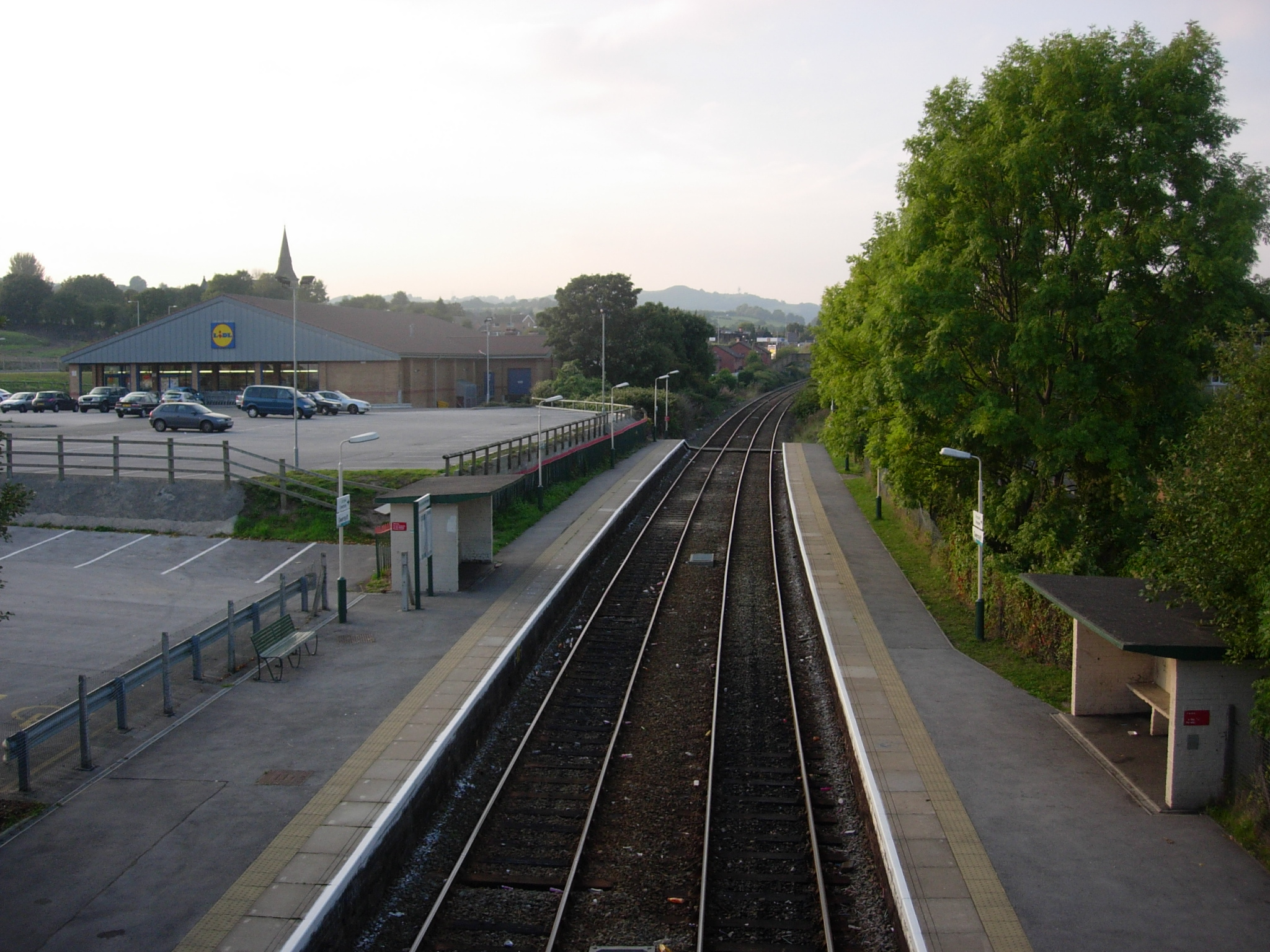 Own Photo